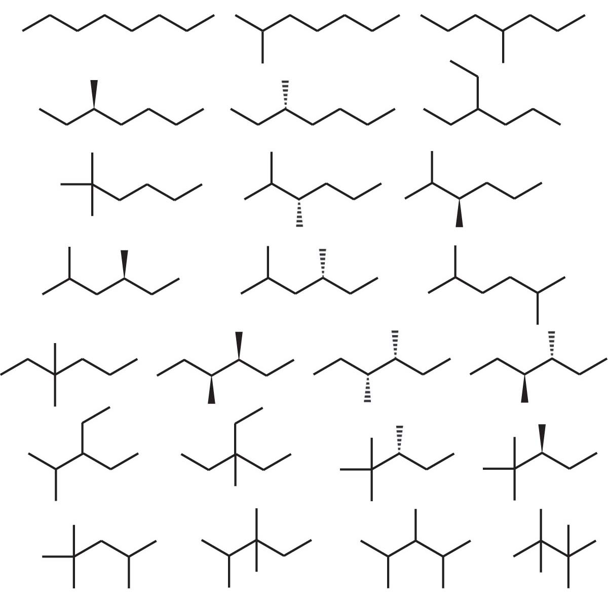 isomer C8H18, Octanes